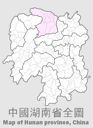 Maps of Hunana Province of China